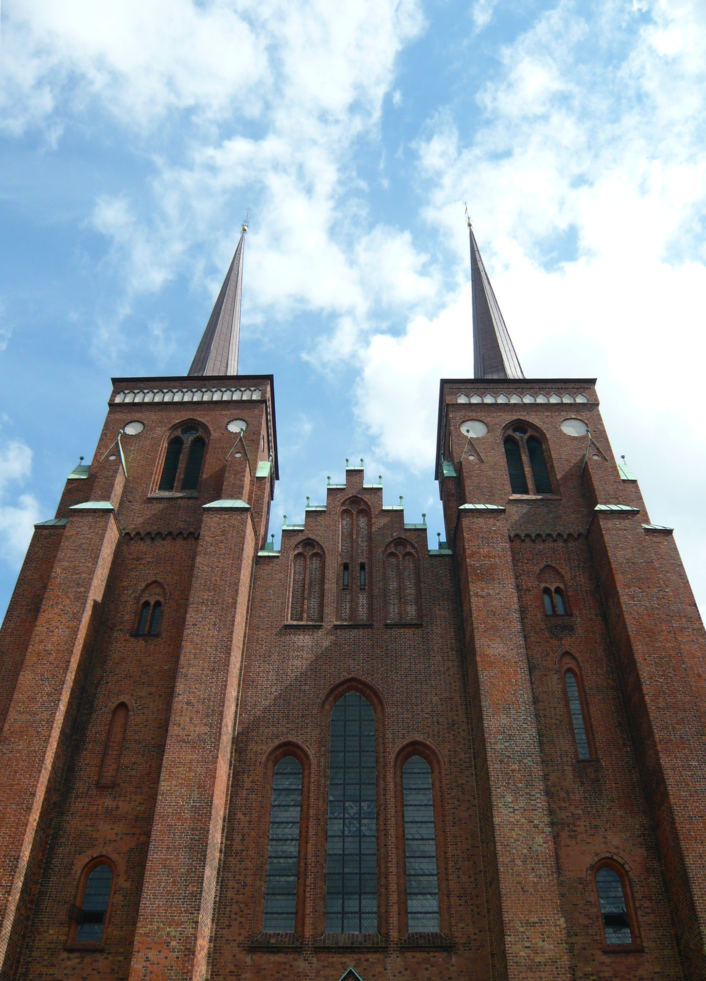 The western facade of the Cathedral.